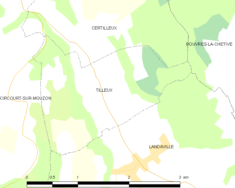 Map of French municipality Tilleux